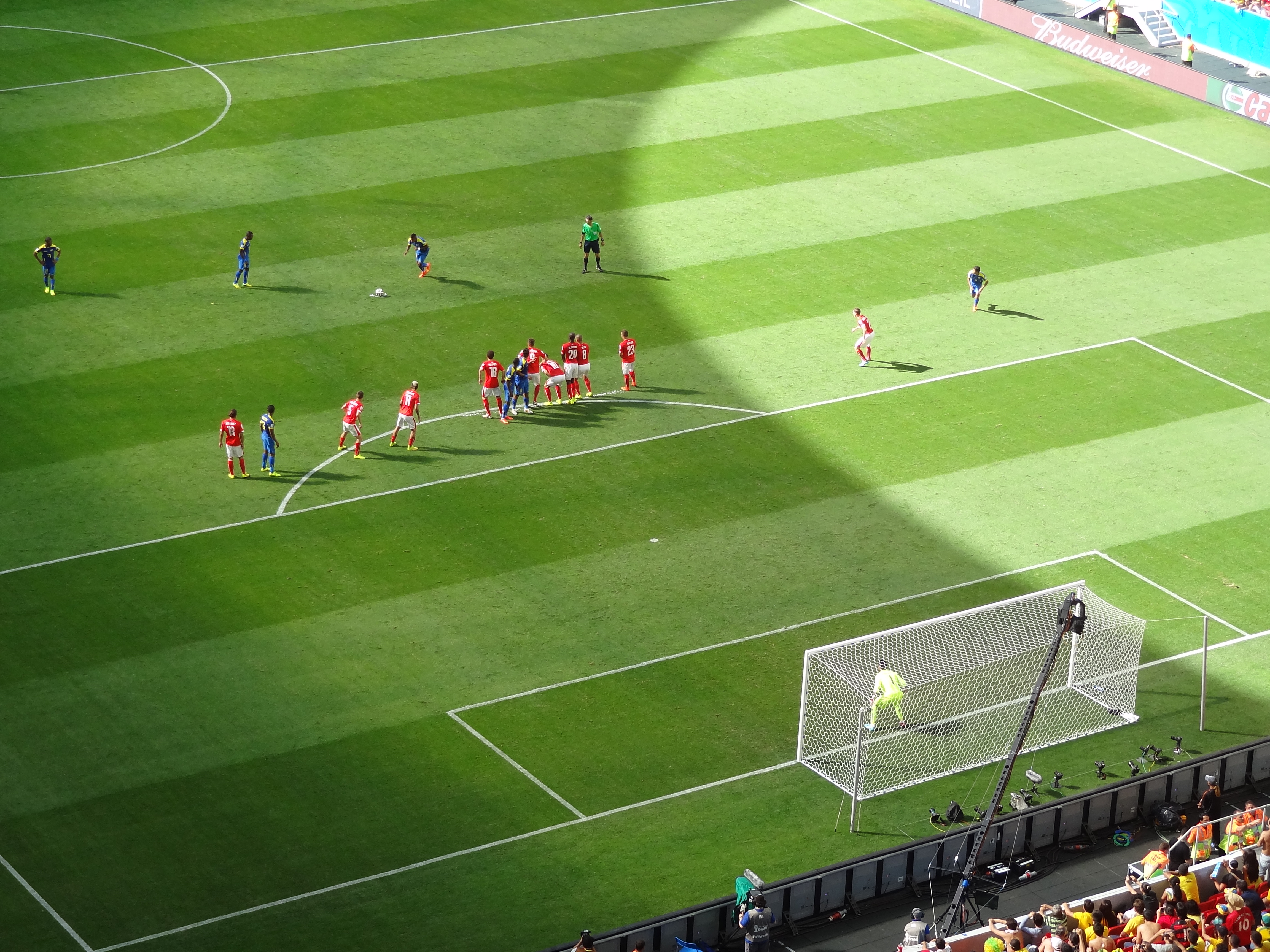 Switzerland and Ecuador match at the FIFA World Cup (2014-06-15), Estádio Nacional Mané Garrincha, Brasilia.